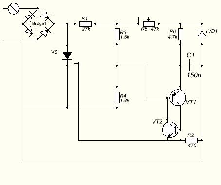 Light power regulator using thyristor